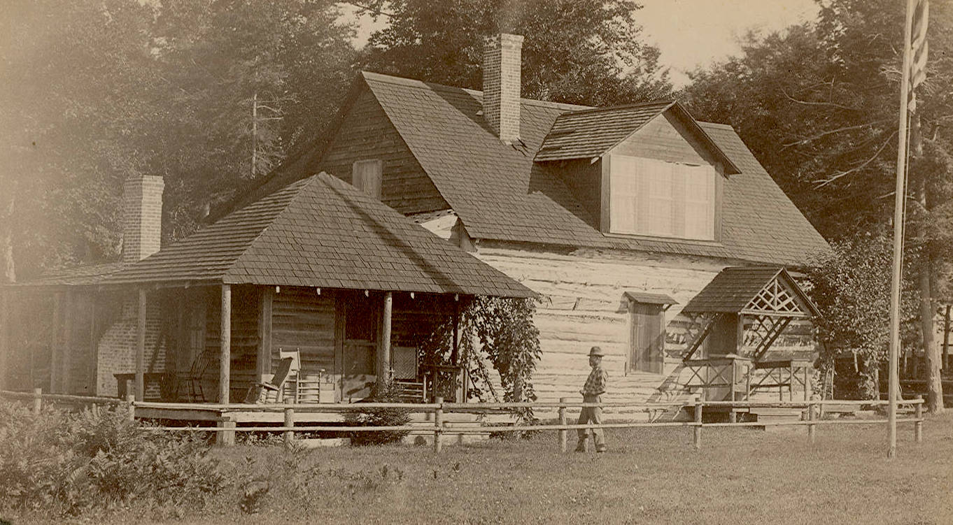 "President's Cabin, Saranac Inn", Grover Cleveland, 1837-1908, Adirondacks, Seneca Ray Stoddard. "Occupied by Pres. Cleveland" is inscribed on the matting.